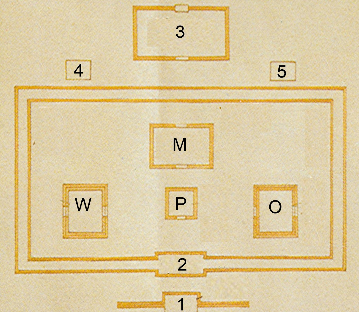 Layout of Asuka-dera at Asuka